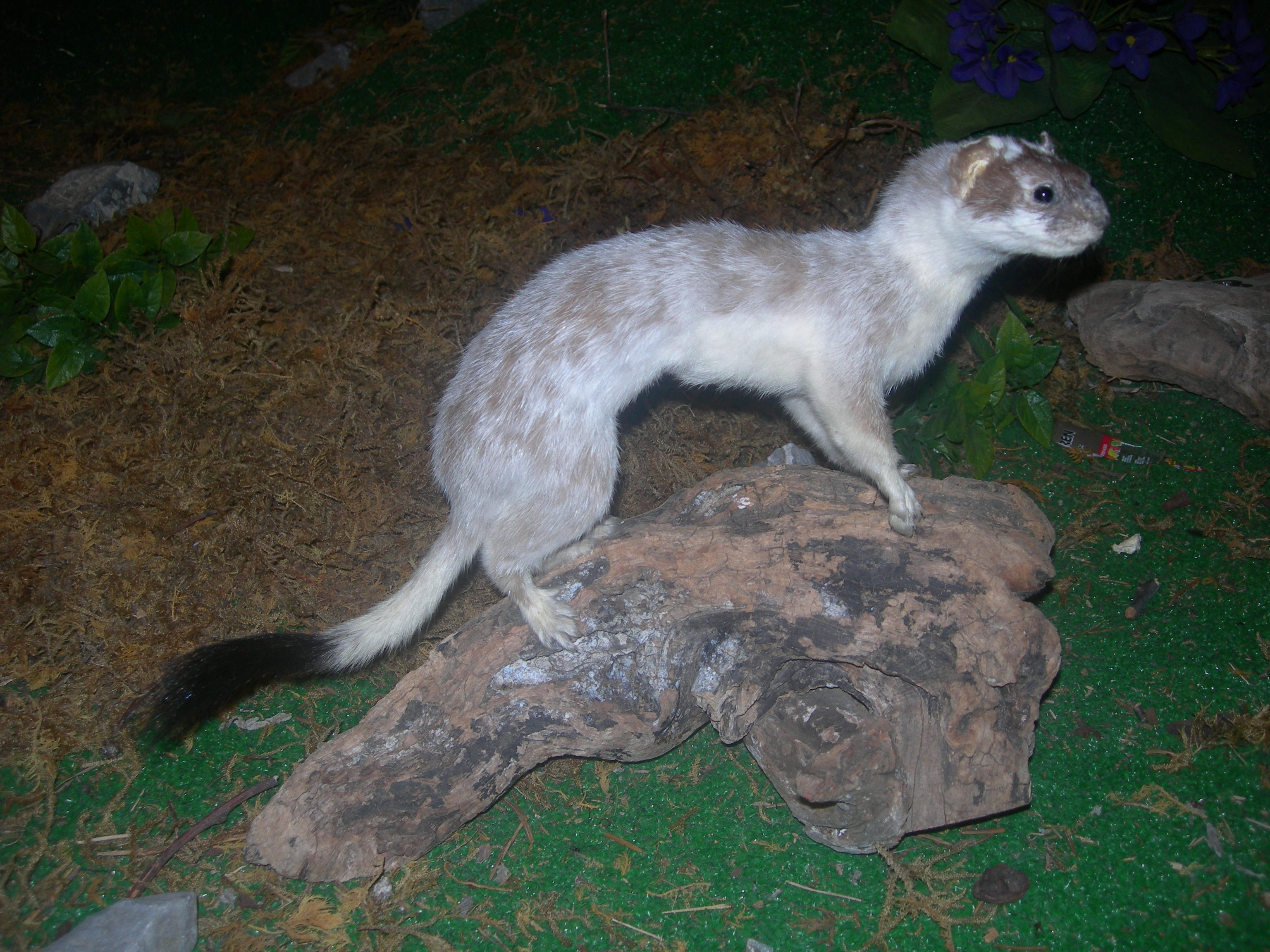 Mounted ermine (Mustela erminea)